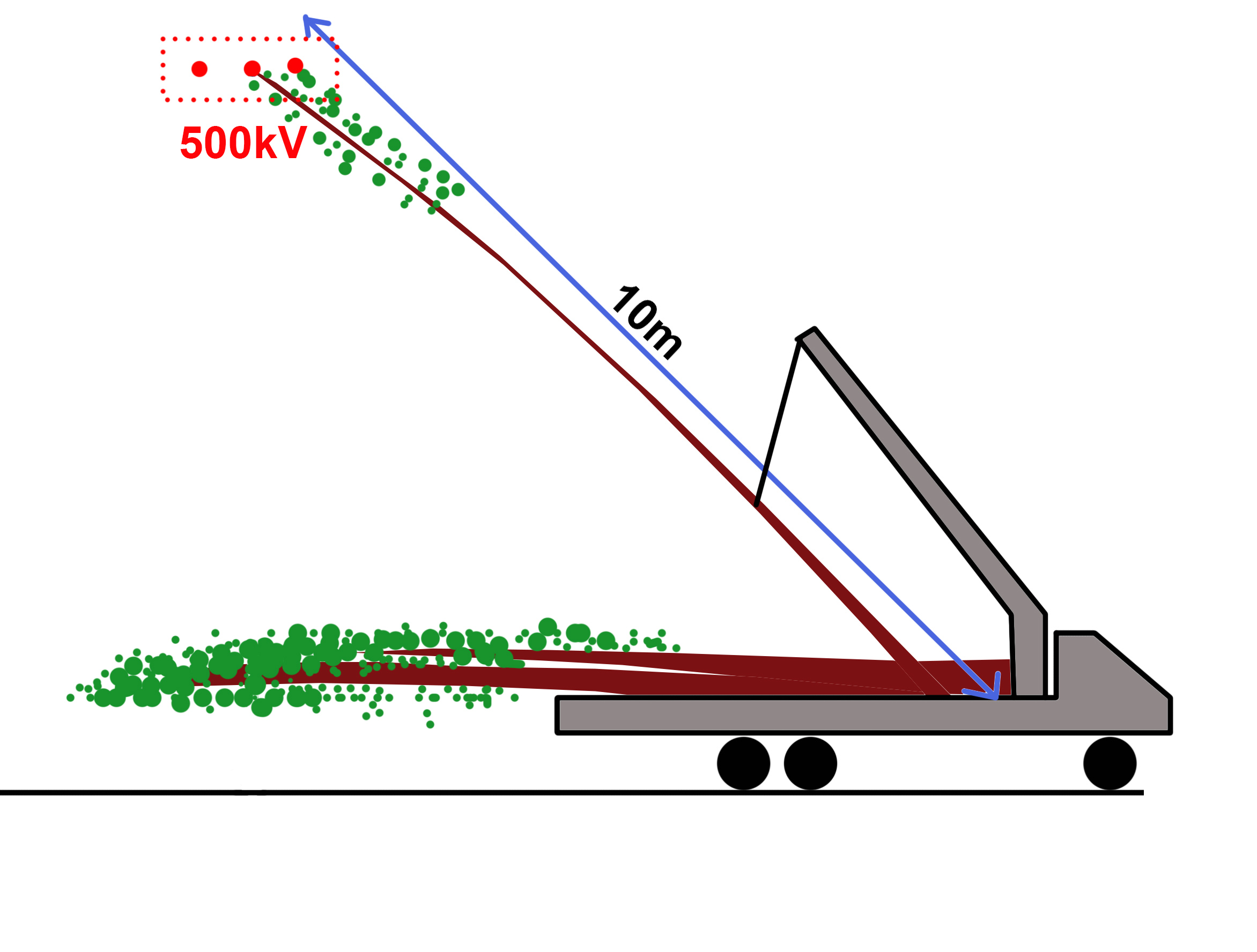 2013 Southern Vietnam and Cambodia blackout, illustration of the reason